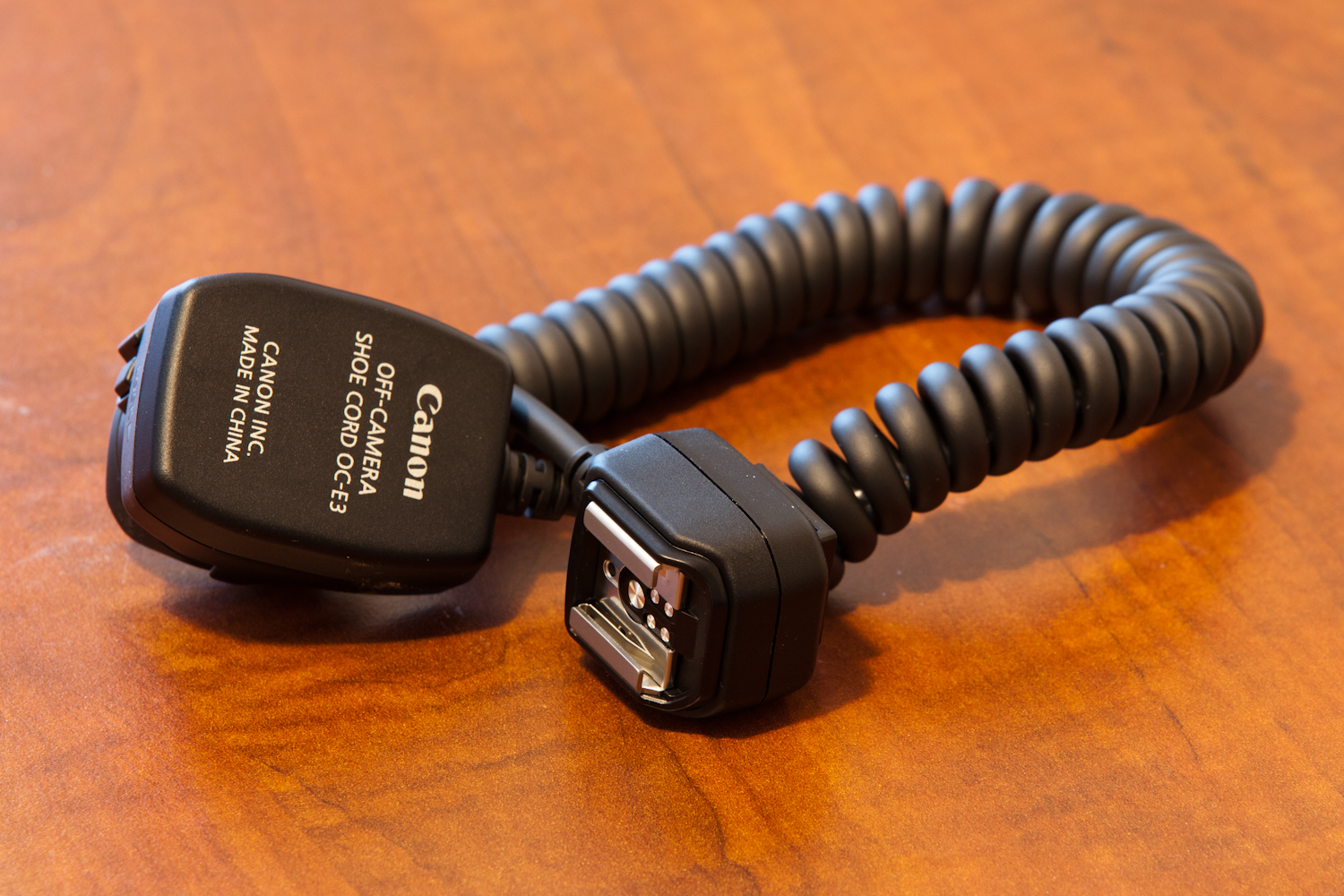 A Canon OC-E3 Off-Camera Shoe Cord for use with Canon Speedlites and EOS Series cameras